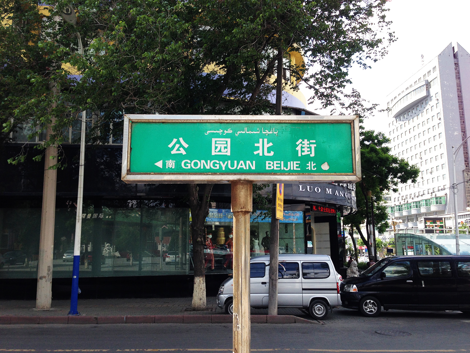 Gongyuan Beijie in Shayibake District in Urumqi